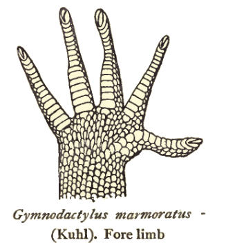 Javan bent-toed gecko, also know as Marbled bow-fingered gecko, Cyrtodactylus marmoratus (Kuhl, 1831)